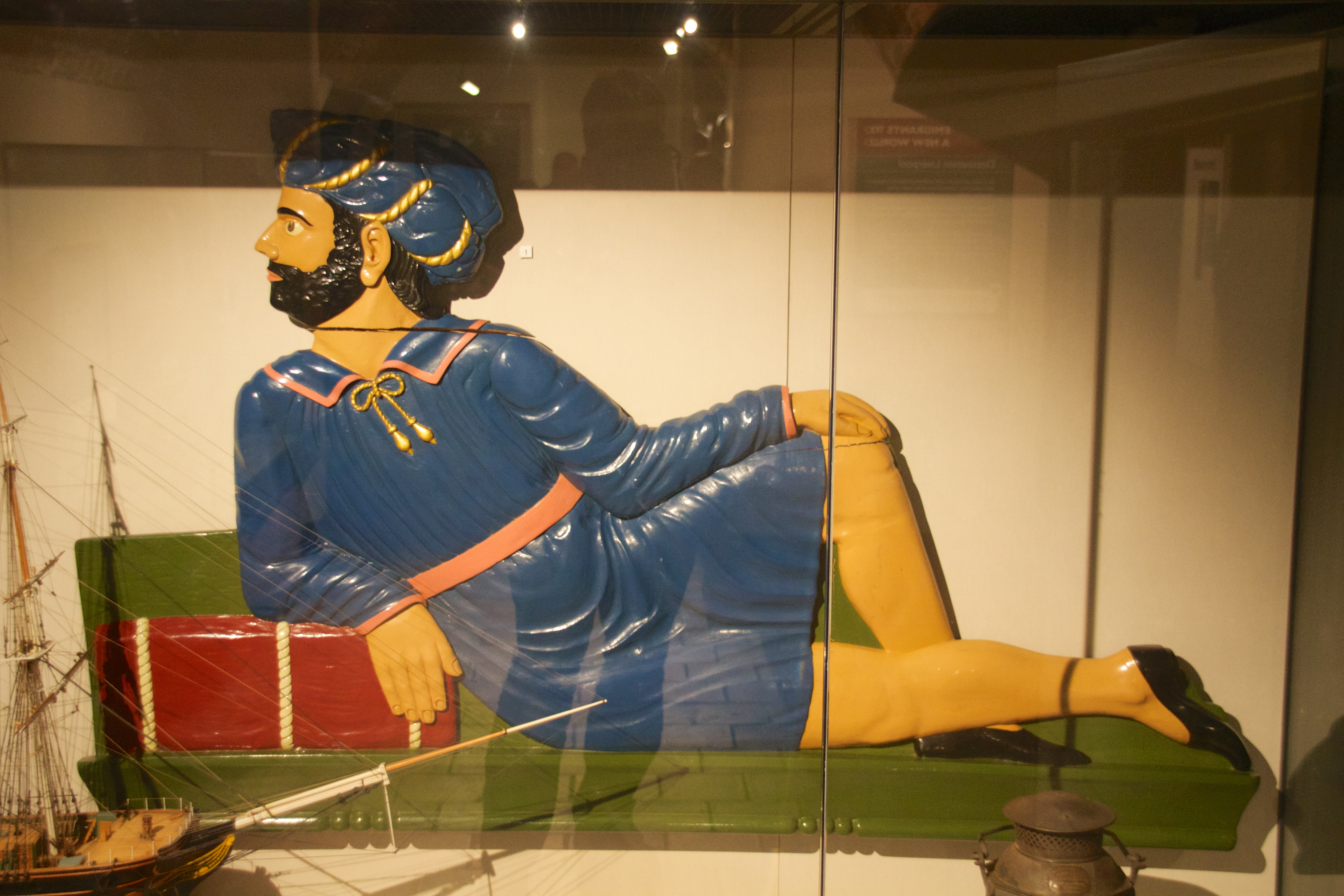 Replica stern carvings from Black Ball Line ship Marco Polo (1851). The originals are in New Brunswick Museum, Canada. On display at the Merseyside Maritime Museum.